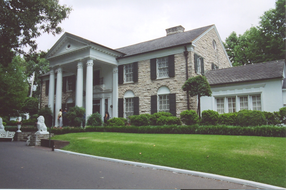 Graceland, Elvis Presley's home in Memphis, Tennessee